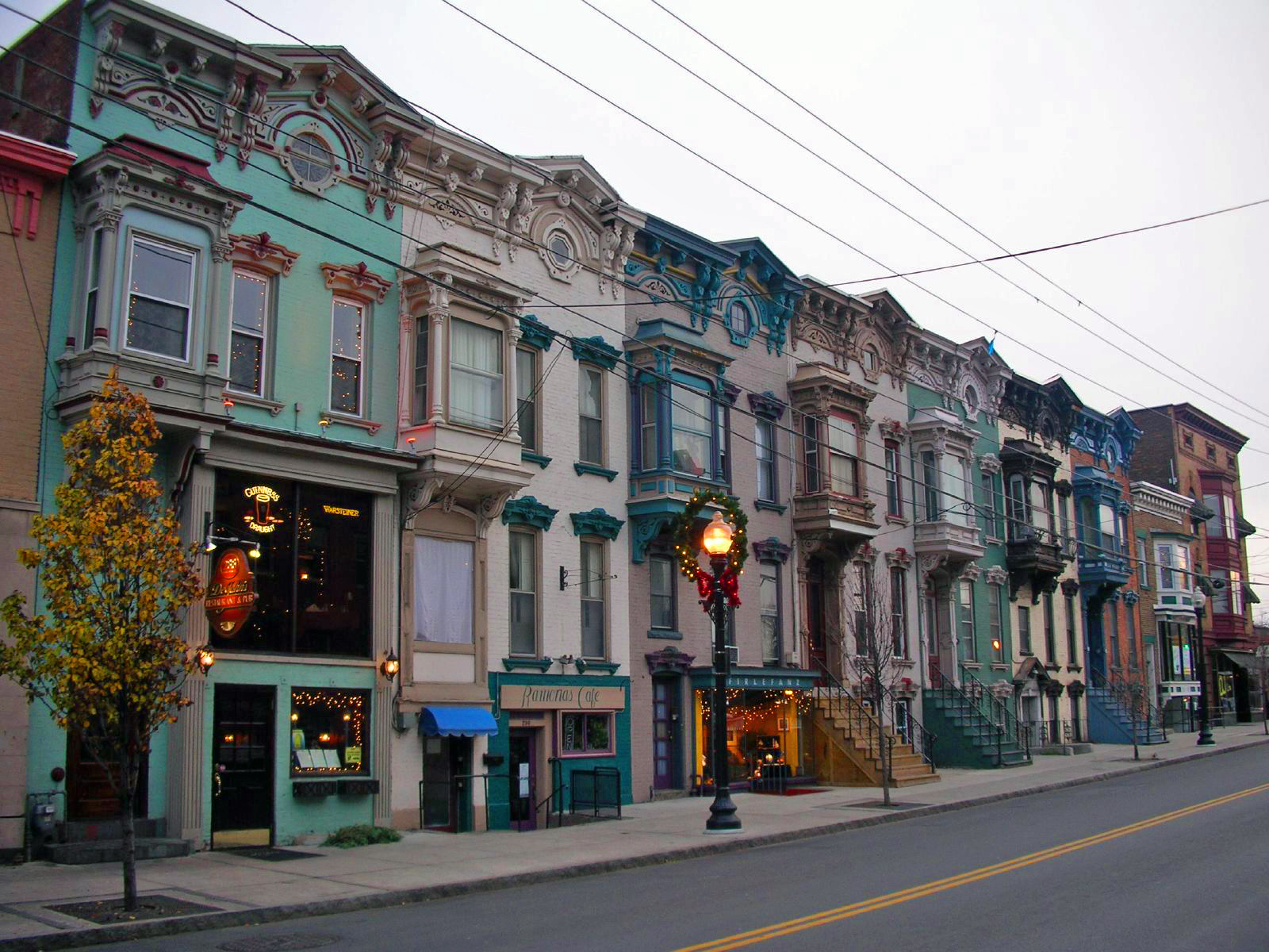 Artsy Lark Street